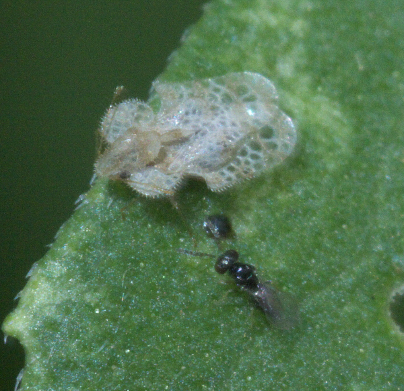 Corythucha marmorata, Chrysanthemum Lace Bug, ID Confidence: 87